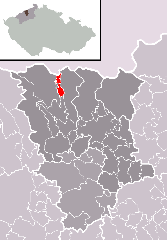 Location of Mikulov municipality within Teplice District and administrative area of Teplice as a Municipality with Extended Competence.